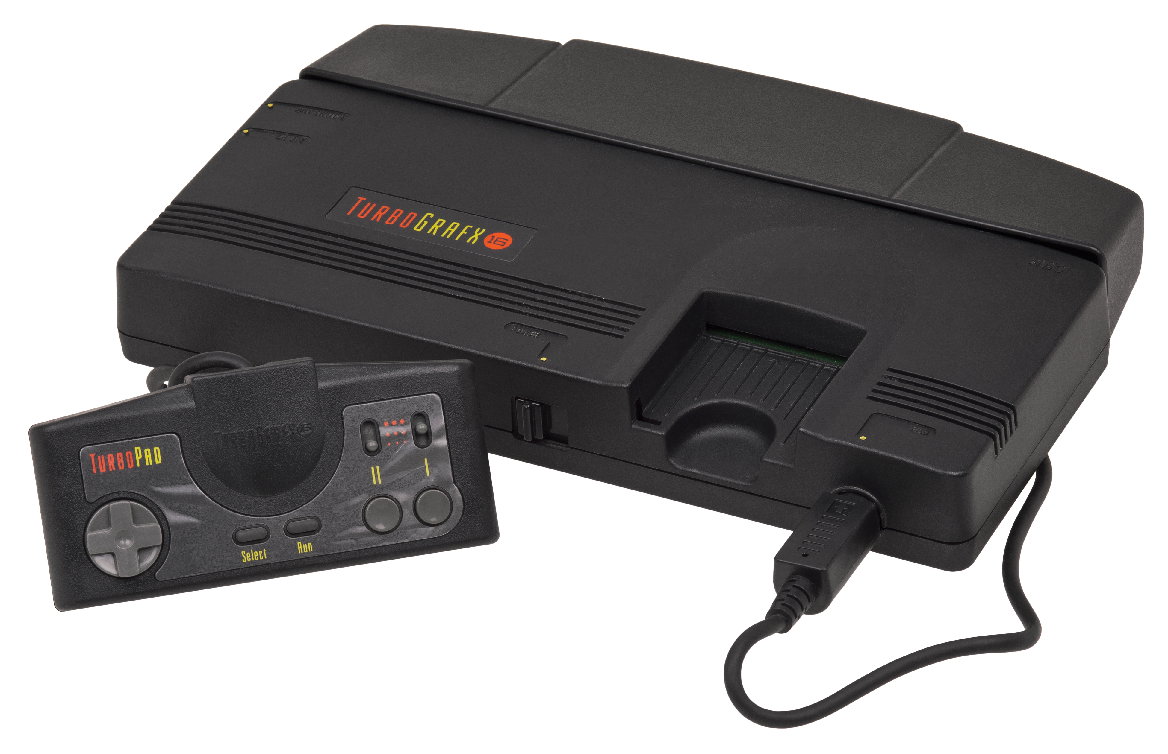 A North American TurboGrafx-16 video game console, released by NEC.